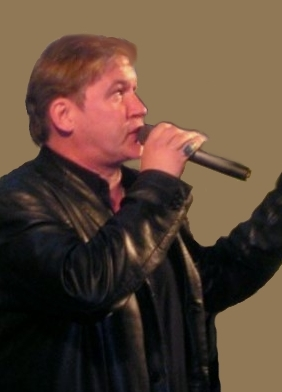 Johnny Logan, Irish singer and composer.